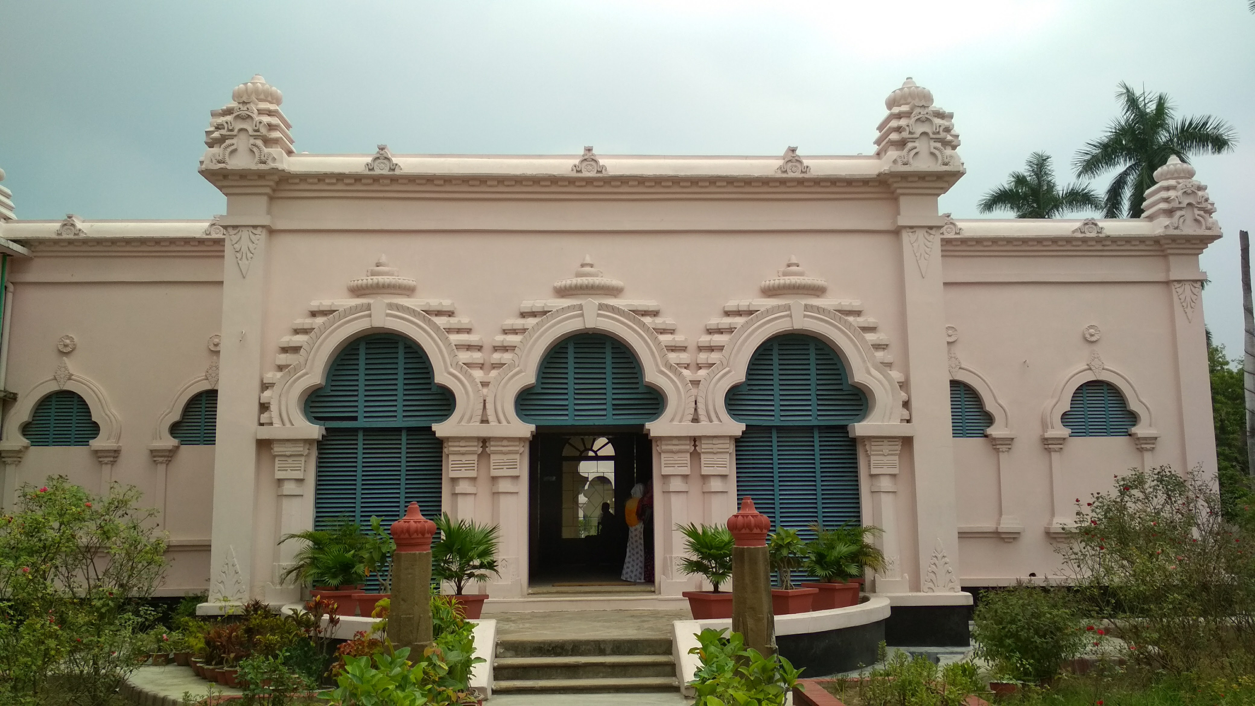 Front side of Varendra Research Museum, Rajshahi